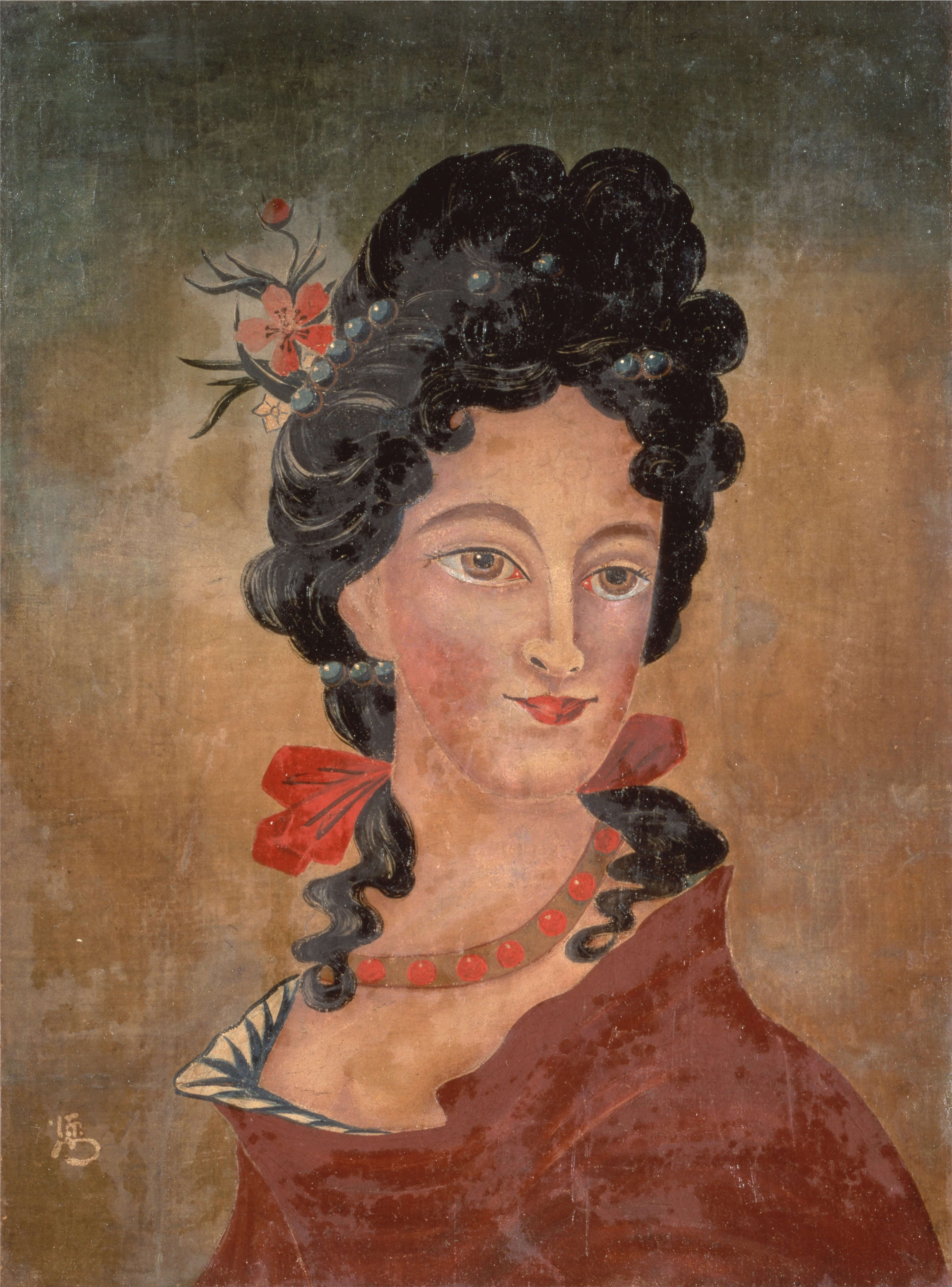 Woman (oil painting)